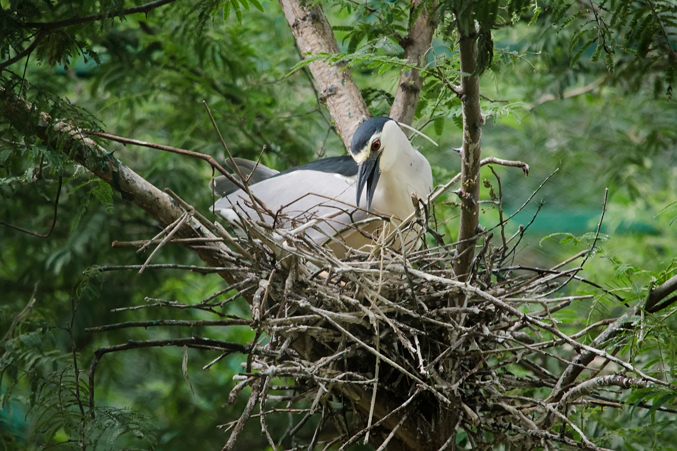 A Night Heron building a nest, Bangalore, India.